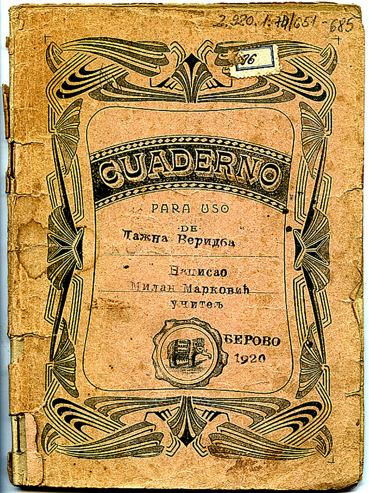 The cover page of the drama "A fake engagement" by Milan Markovski, a teacher from the village Jankoec, Resen. 1920. This media file is produced by Wikipedian in Residence in Category:Wikipedian in Residence at DARM in 2016.